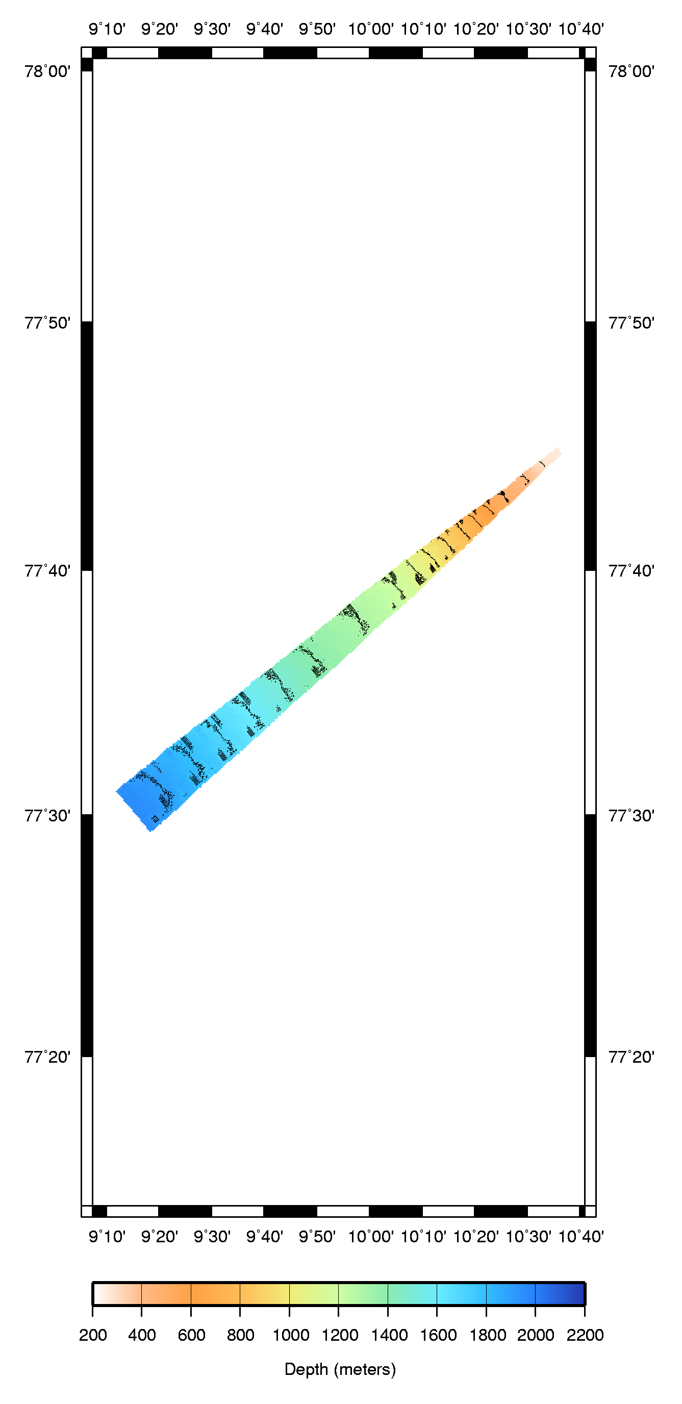 Graf of primary data from a swath echo sounder while mapping the ocean floor